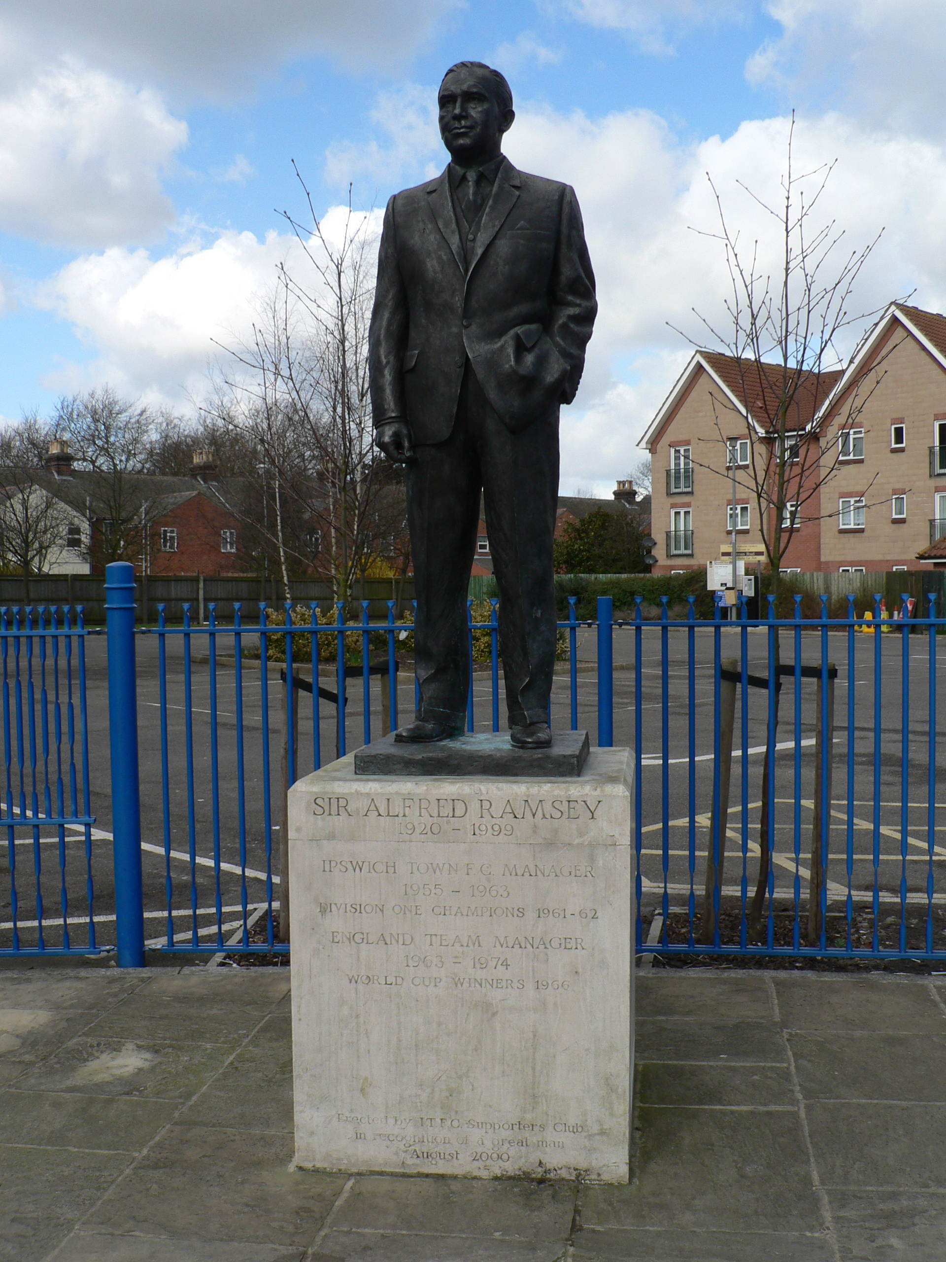 Statue of Sir Alf Ramsey at Ipswich Town Football Club